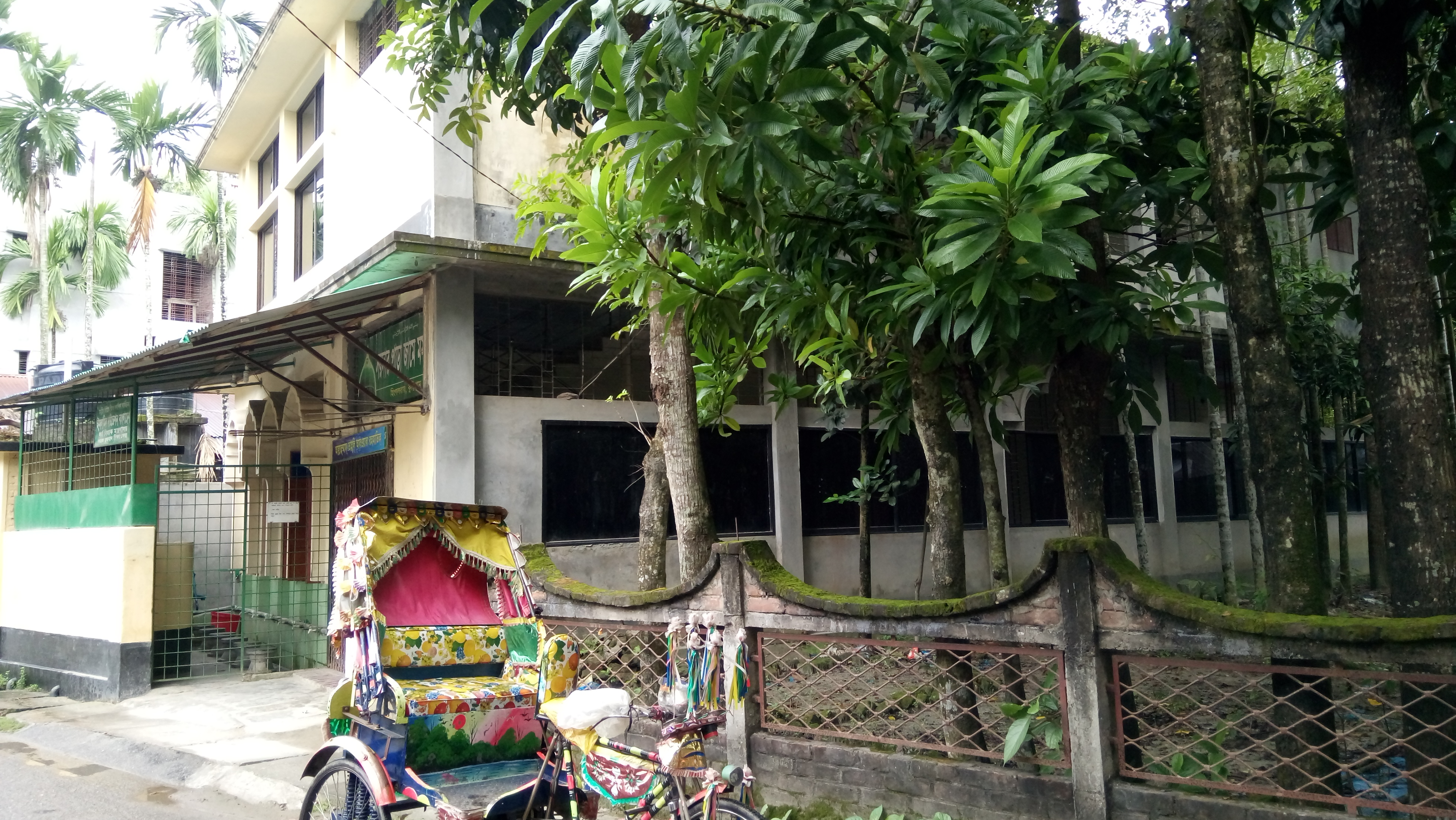 Sardarpara Jami Mosque , Kurigram